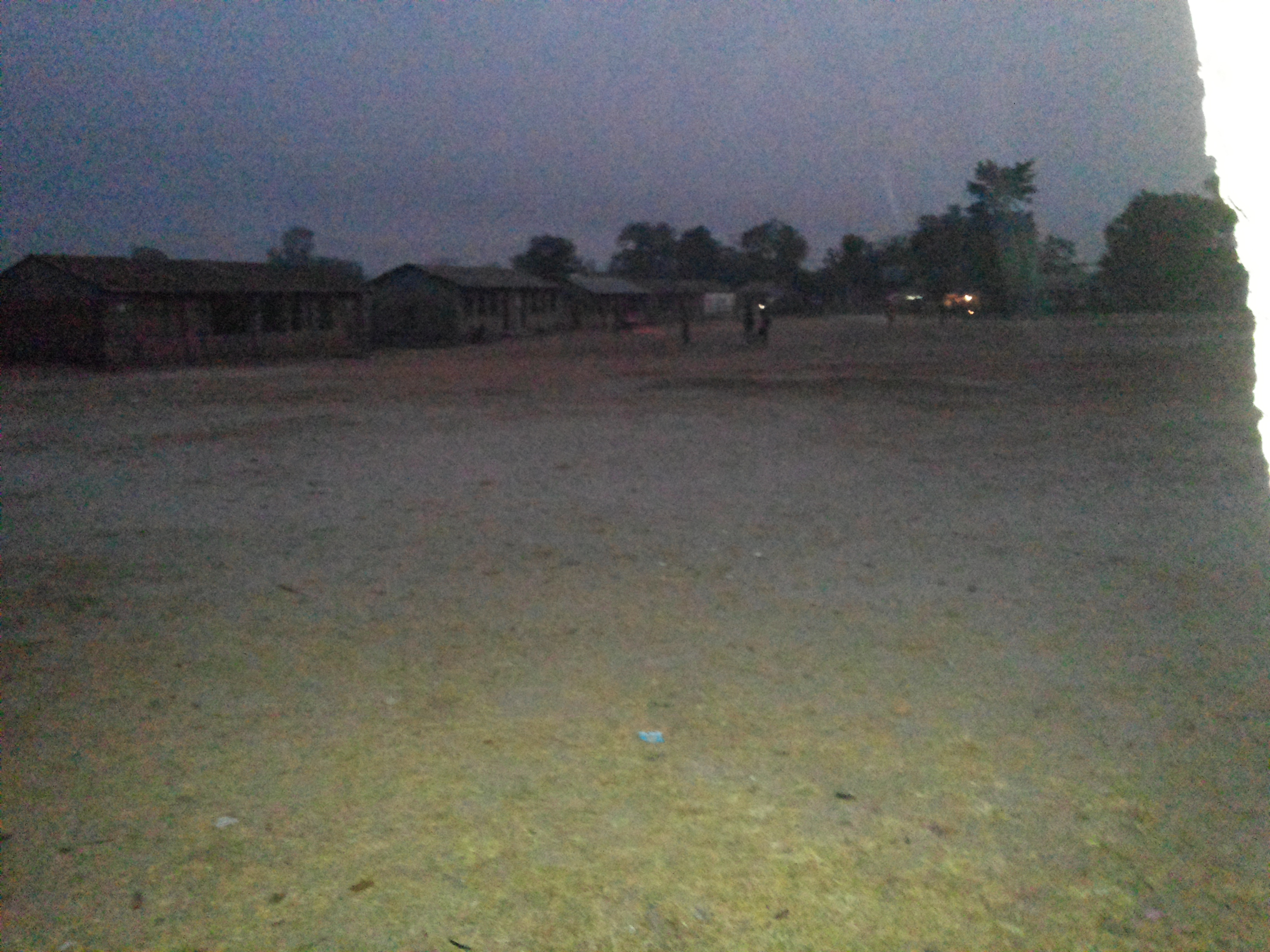 नेपाली: playground 2